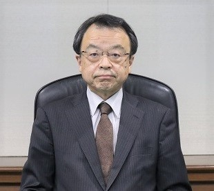 Makoto Hayashi was inaugurated as Superintendent Public Prosecutor of Tōkyō High Public Prosecutors Office on May 26, 2020.(For terms of use, see 検察庁ホームページ利用規約：検察庁.)